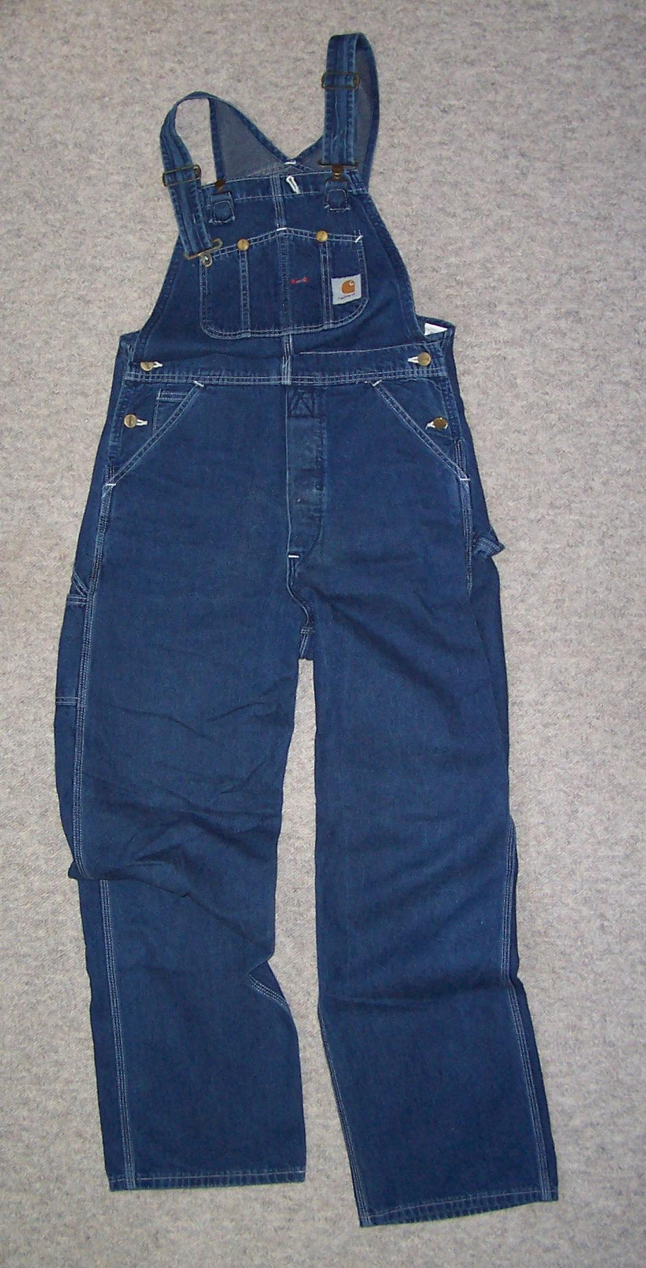 Bib and brace overalls.